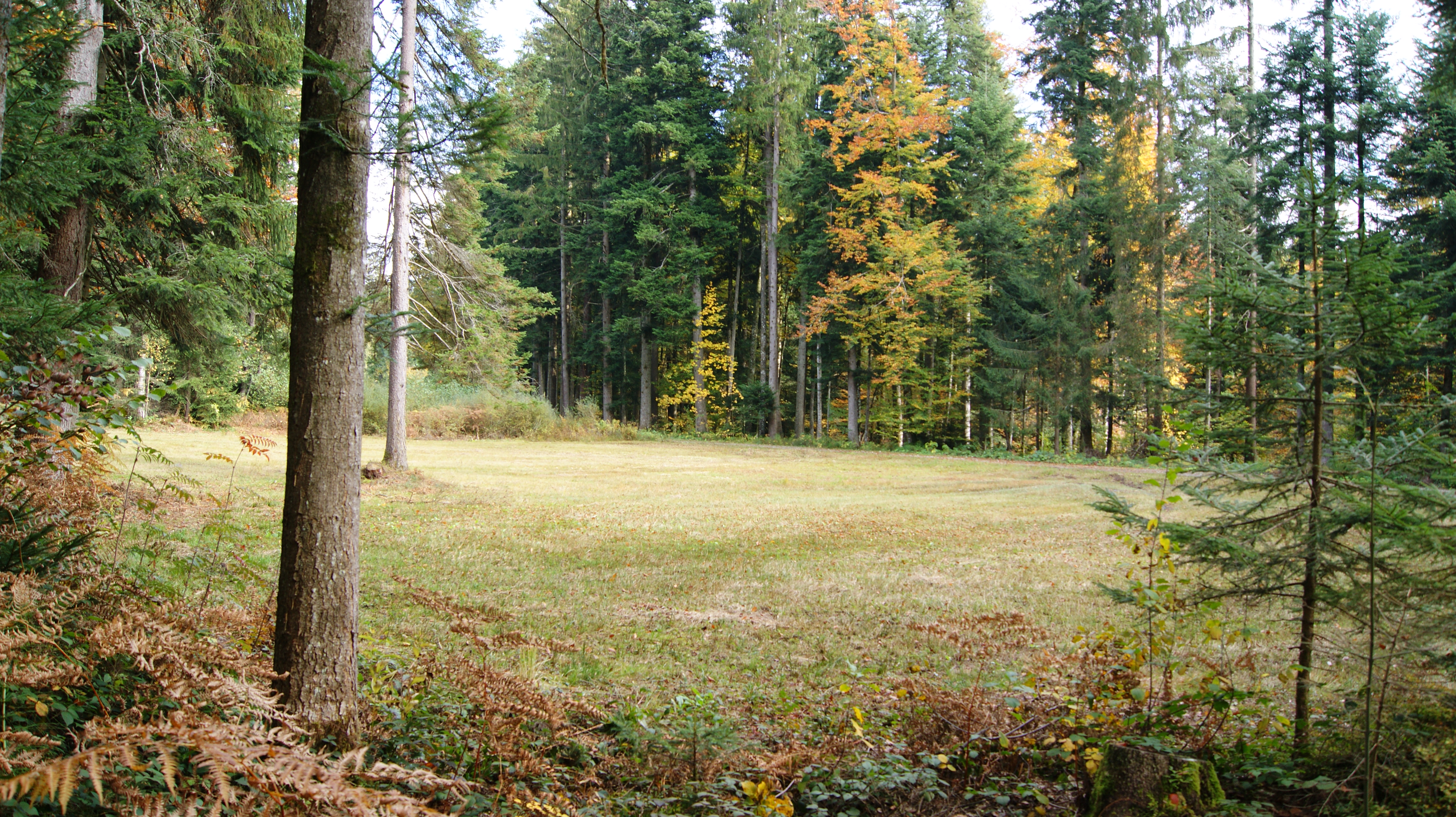 Nature reserve Rossbad in Krumbach, Vorarlberg, Austria. Moor.